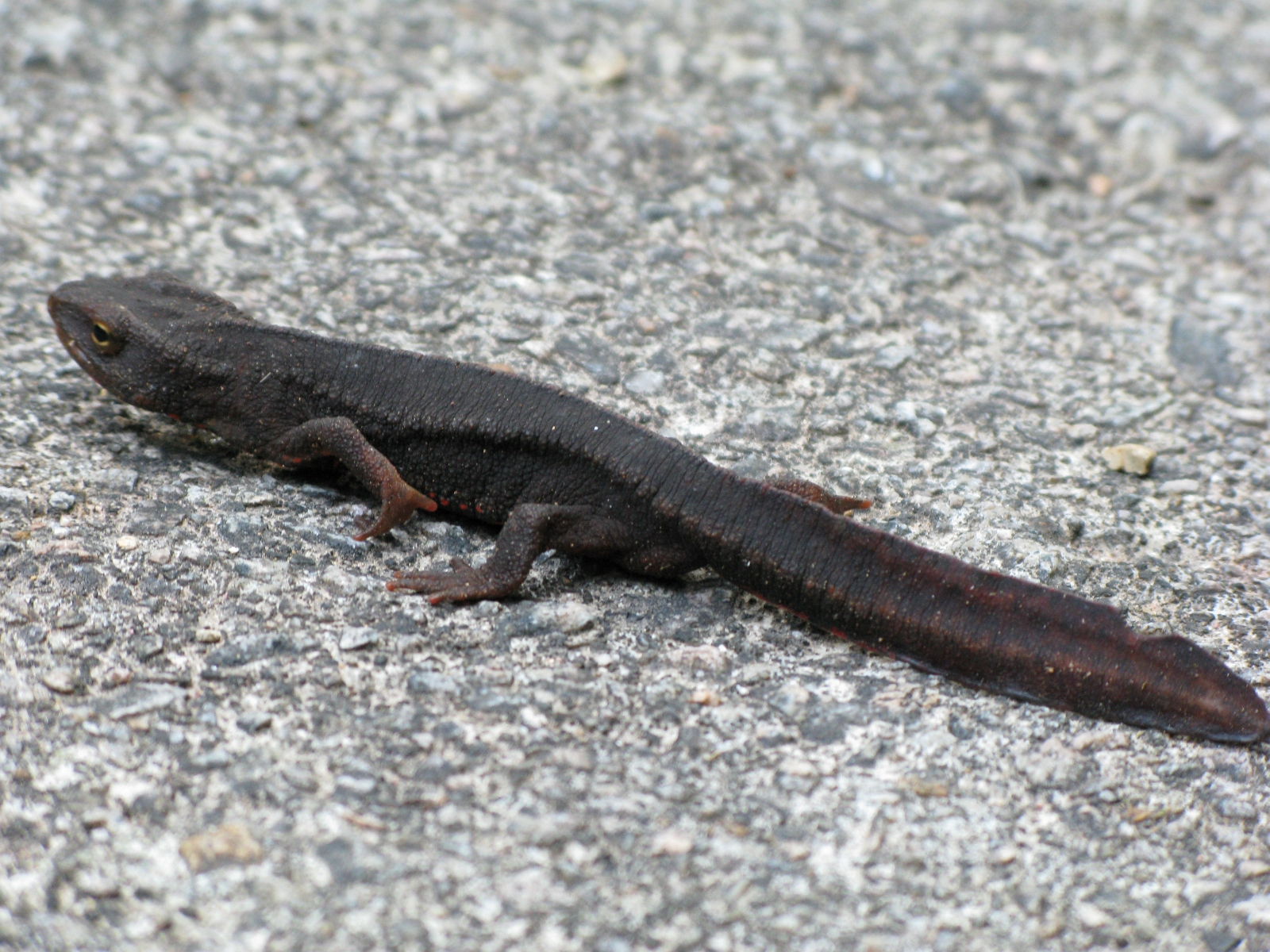 Hong Kong Newt (Paramesotriton hongkongensis), taken in Hong Kong's country park.